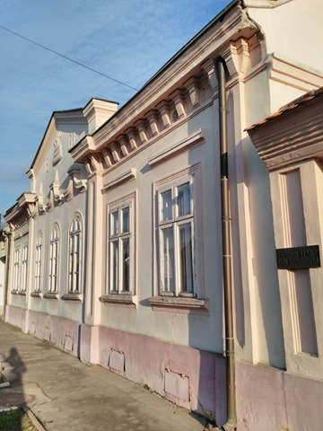 Sava Šumanović house.